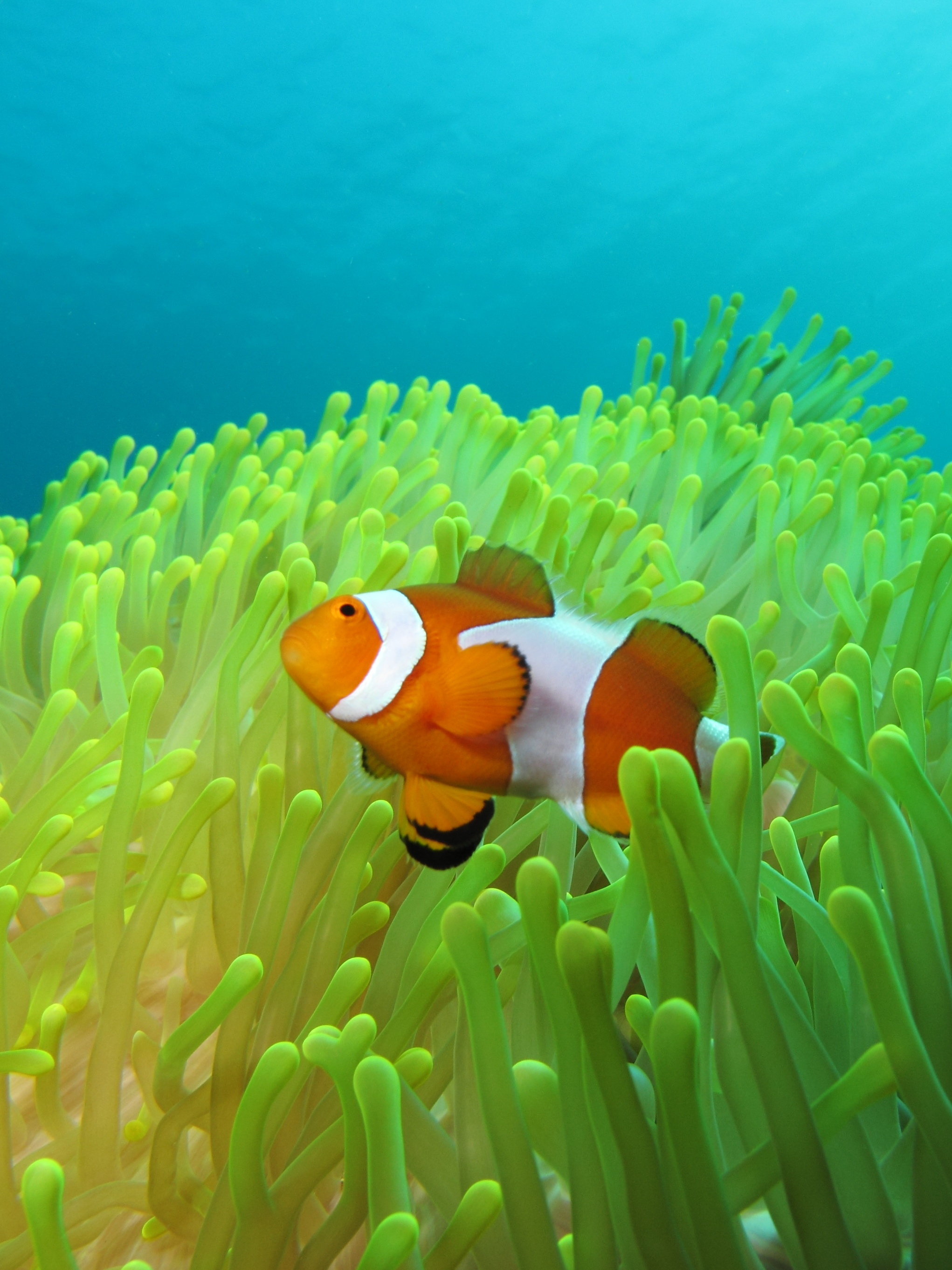 Amphiprion ocellaris at Gilli Banta